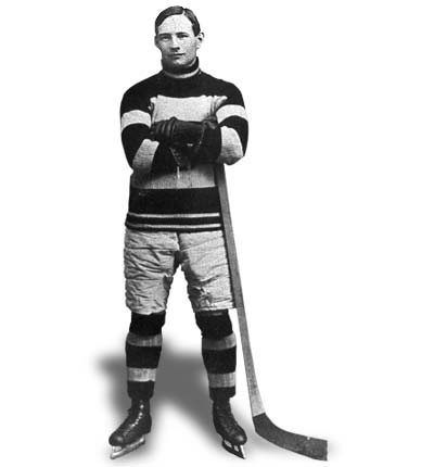 picture of Hod Stuart